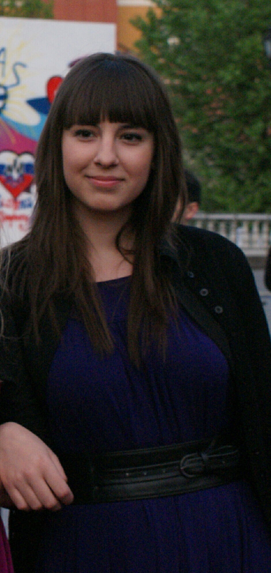 Urban Symphony in Moscow, 2009. Johanna Mängel